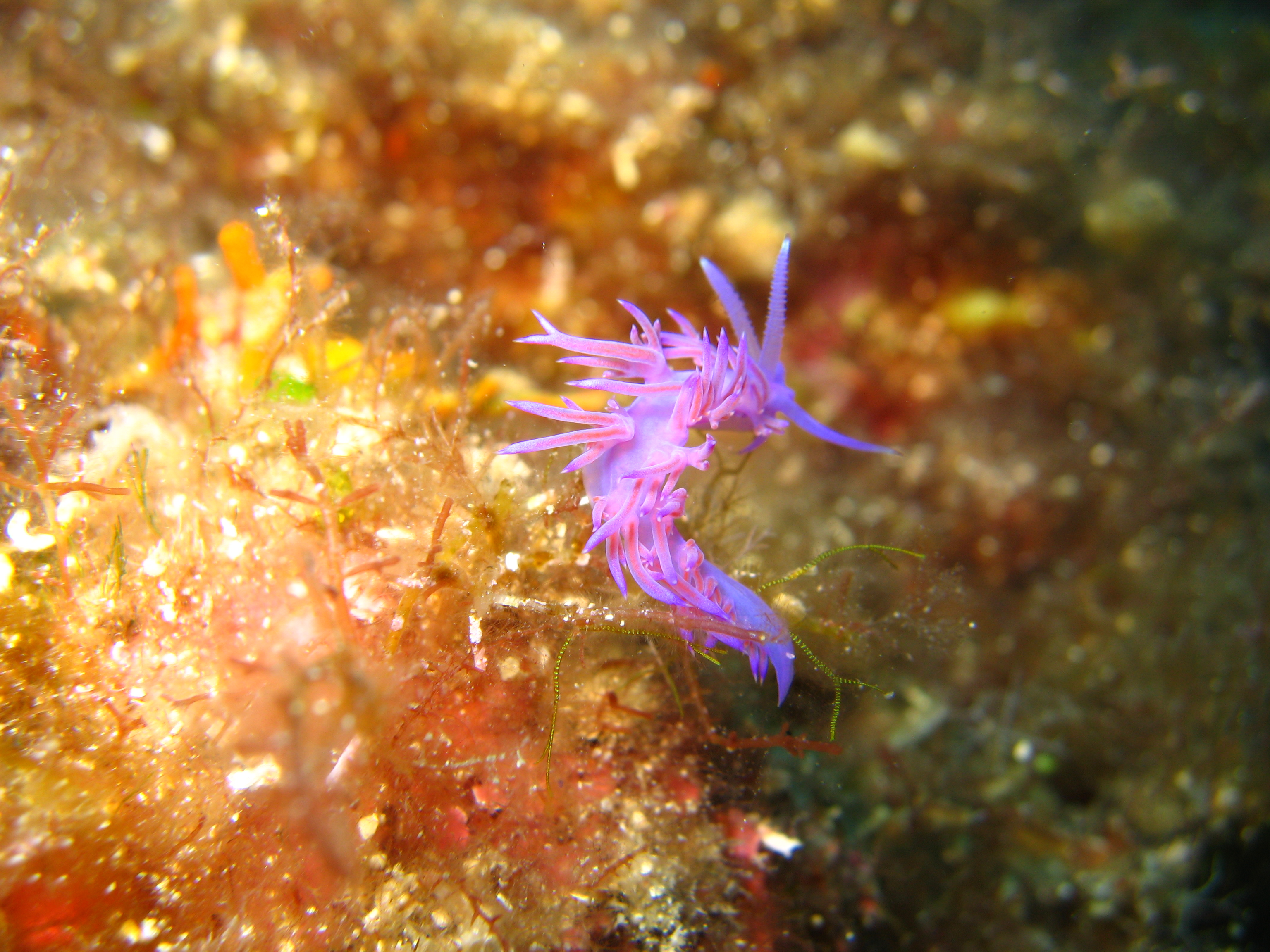 An image showing a sea snail. This image was awarded in Croatian Wikipedija as the Image of the Week.